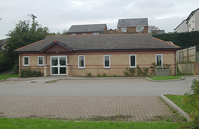 Community Centre, Gallacher Way, Saltash. Community Centre, Gallacher Way, Saltash, built as part of the Latchbrook estate by the developers.